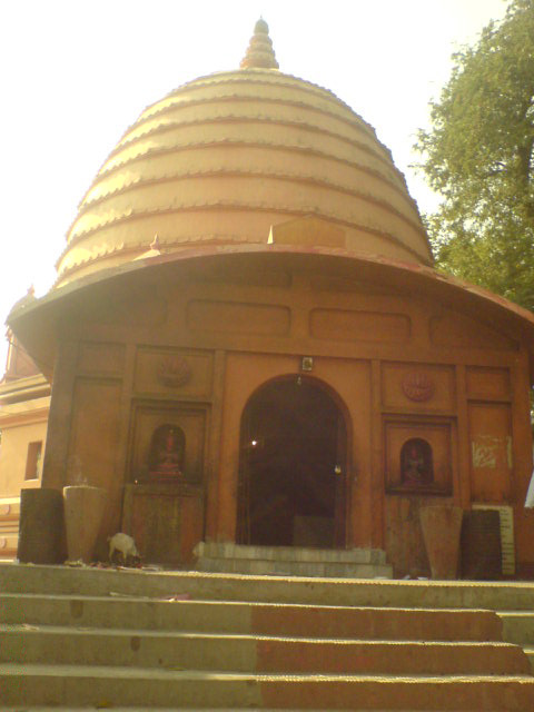 Navagraha Temple In Chitrachal Hills, Chenikutti